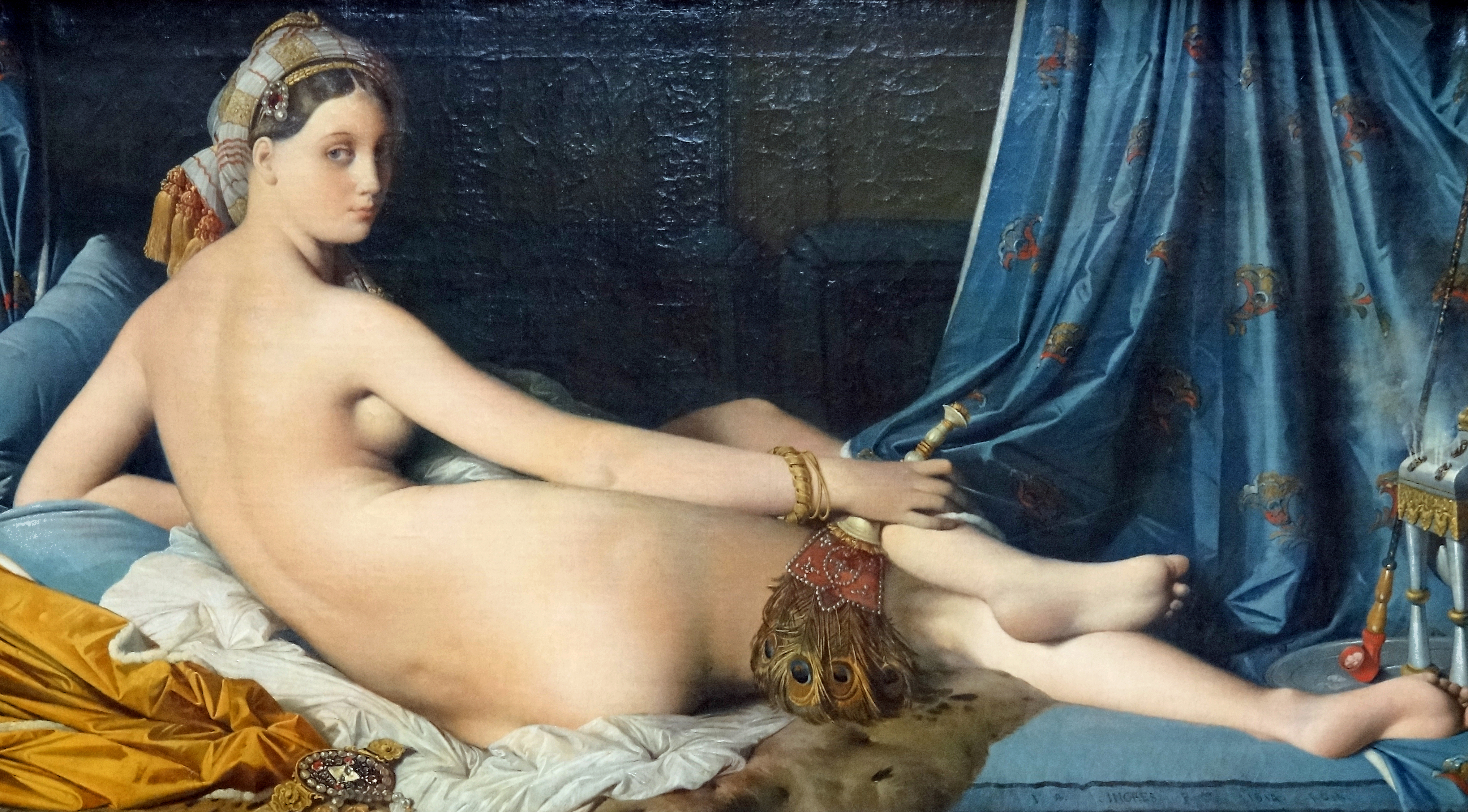 Grande Odalisque, is an oil painting of 1814 by Jean Auguste Dominique Ingres. The painting was commissioned by Napoleon's sister, Queen Caroline Murat of Naples. My photos are FREE to use, just give me credit and it would be nice if you let me know, thanks.